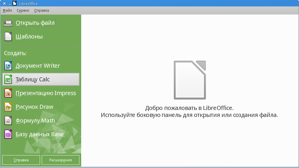 LibreOffice 4.2.7 screenshot